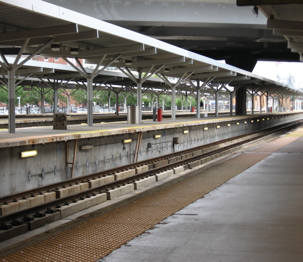 Commuter Rail / Amtrak platforms at North Station in Boston